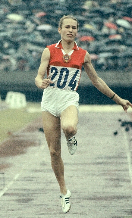 Tatyana Shchelkanova of Soviet Union competes in the Women's Long Jump qualification during the Tokyo Olympics at the National Stadium on October 14, 1964 in Tokyo, Japan